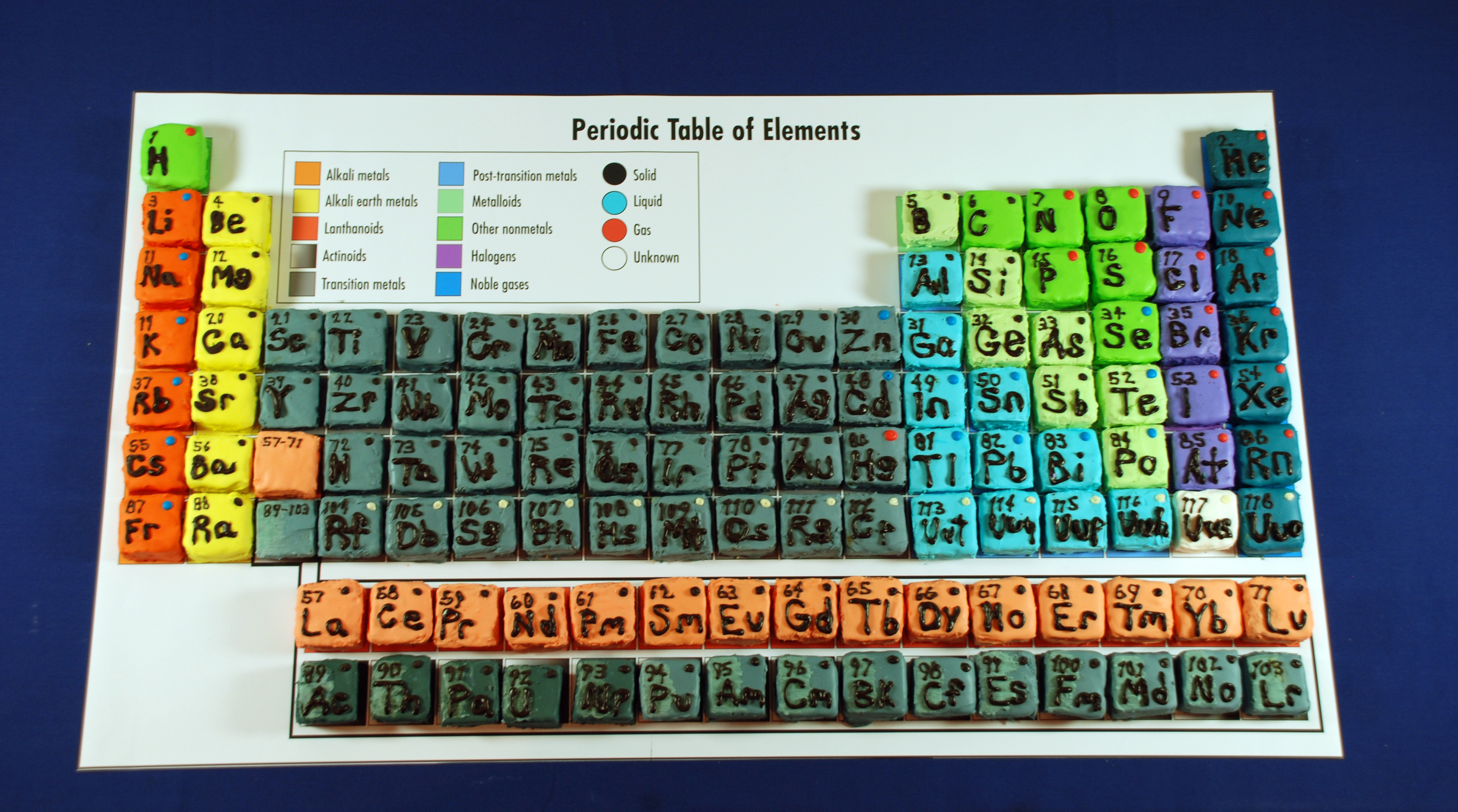 Photograph of Periodic Table Cupcakes, 2 October 2010, at the First Friday first anniversary of the Chemical Heritage Foundation's museum opening, at the Chemical Heritage Foundation, Philadelphia, PA, USA. The cupcakes were created by Jennifer McCafferty of JPM Catering.